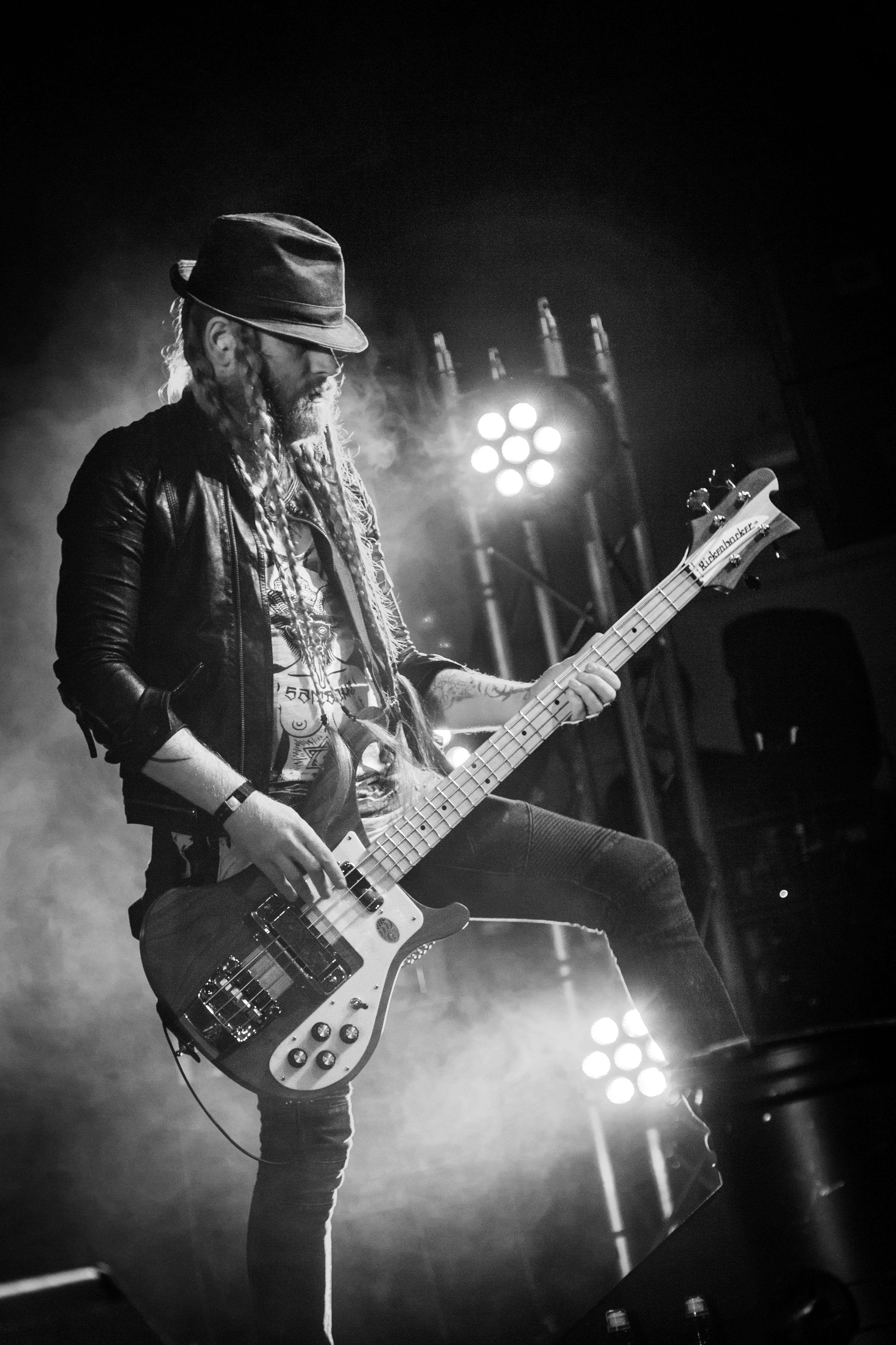 Sólstafir performing live at Eistnaflug 2016